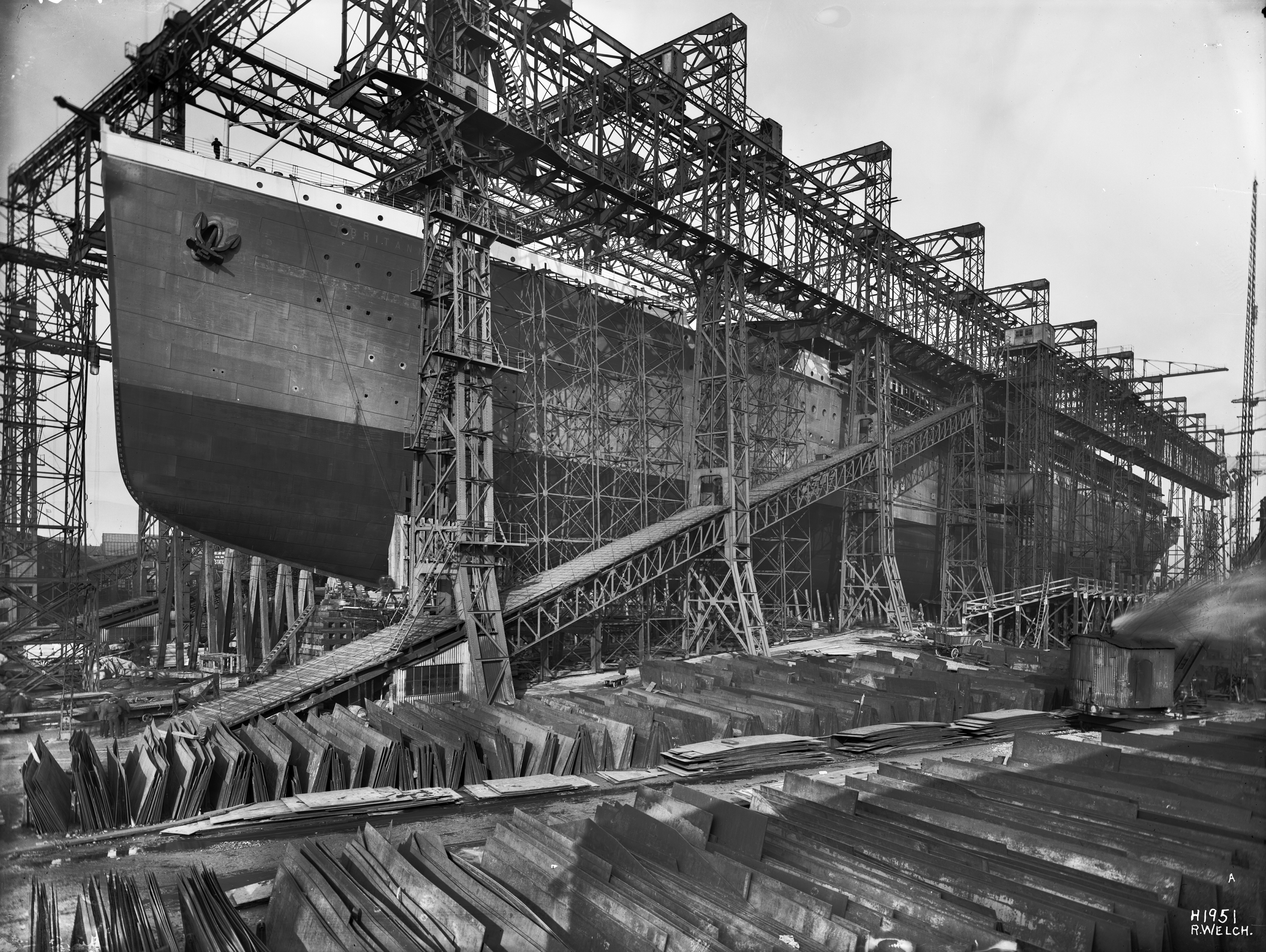 Britannic in the great gantry at Harland & Wolff ready for launching.